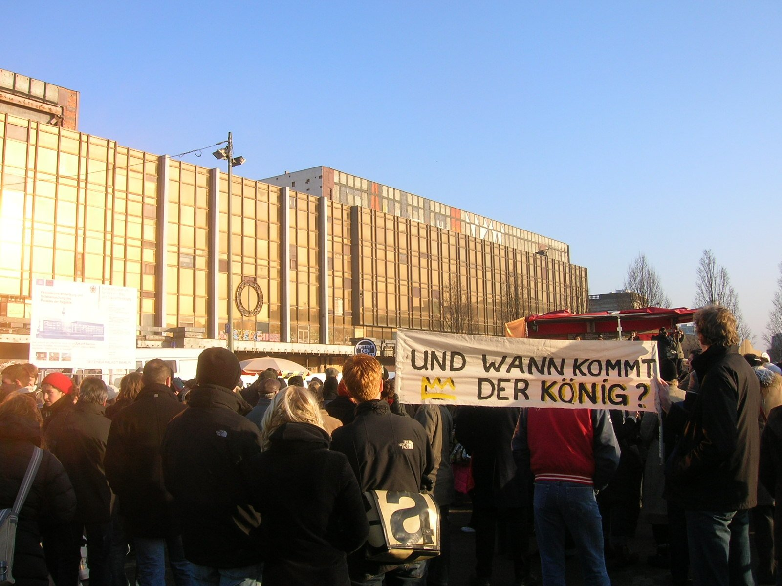 Protests against the demolition of the Palace of the Republic of East Germany. The sign states: "Und wann kommt der König?" - "And when will the king return?" photo taken by Mazbln